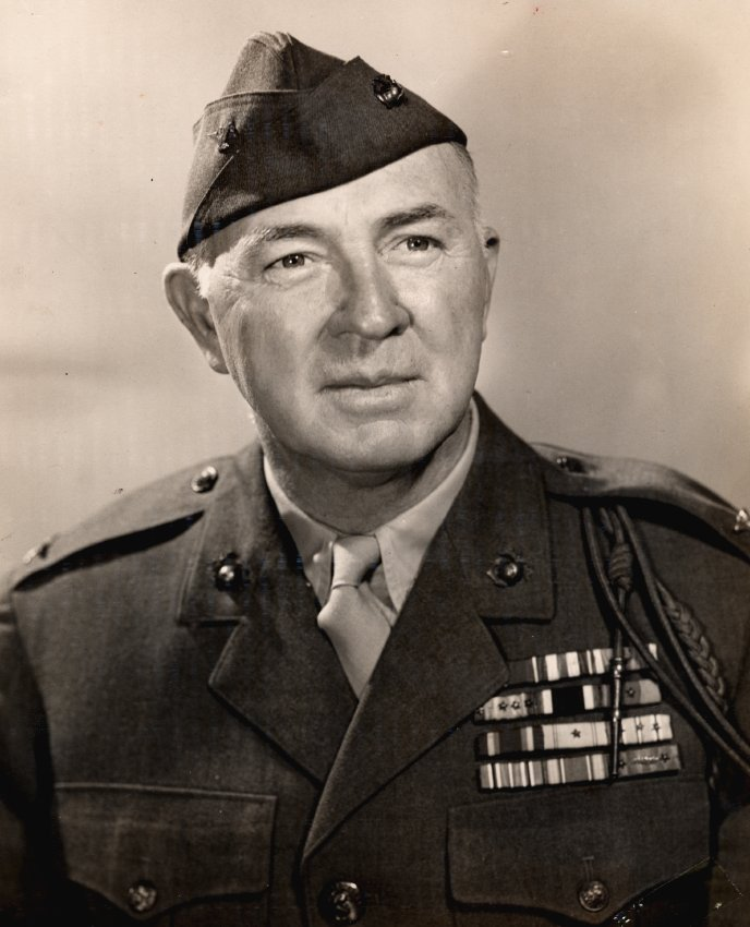 Gilder Davis Jackson Jr. (July 5, 1893 - February 19, 1966) was a highly decorated Officer of the United States Marine Corps with the rank of Brigadier General, who is most noted for his service as Commanding officer of the 6th Marine Regiment during the Guadalcanal Campaign.